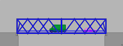 Partridge Truss